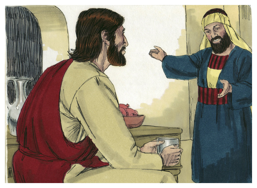 Biblical illustration of Gospel of Luke Chapter 19